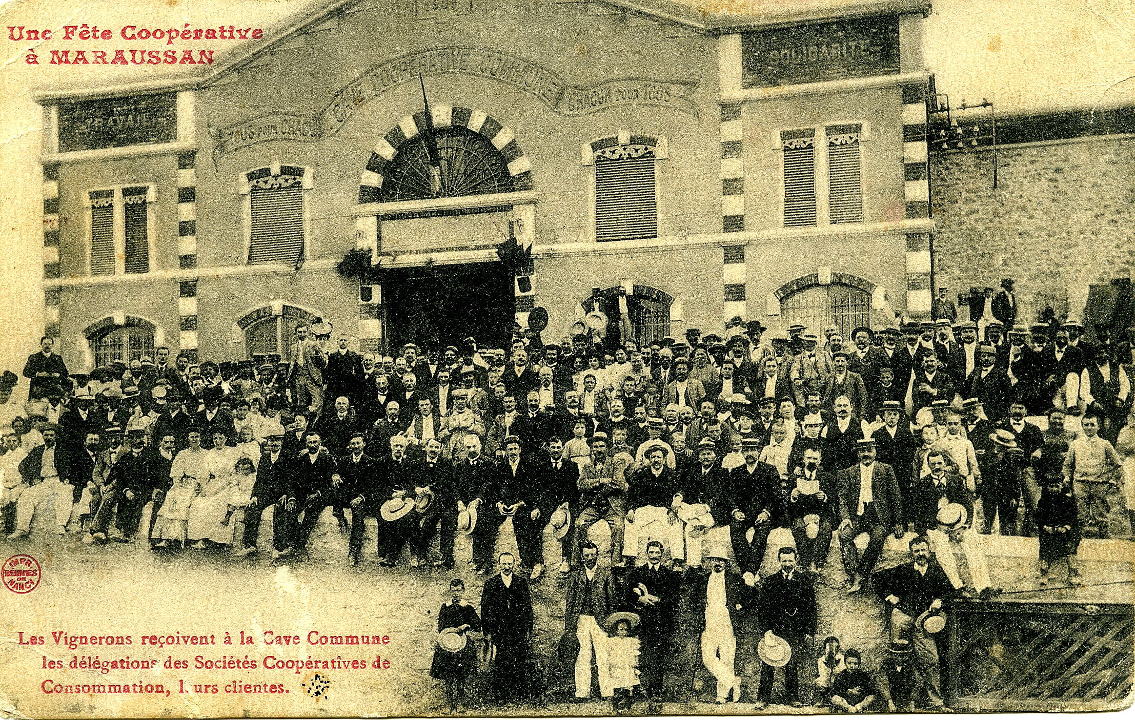 Postcard of France - Département of Hérault (34) Maraussan